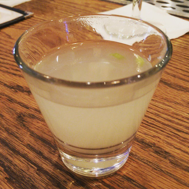 Starting lunch with a traditional clam juice shot. #foodporn #food #sanfrancisco #shots #seafood